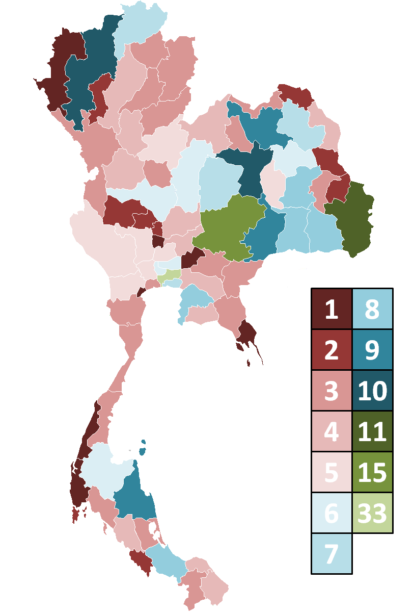 Appropriation of constituency seats in the Thai general election.